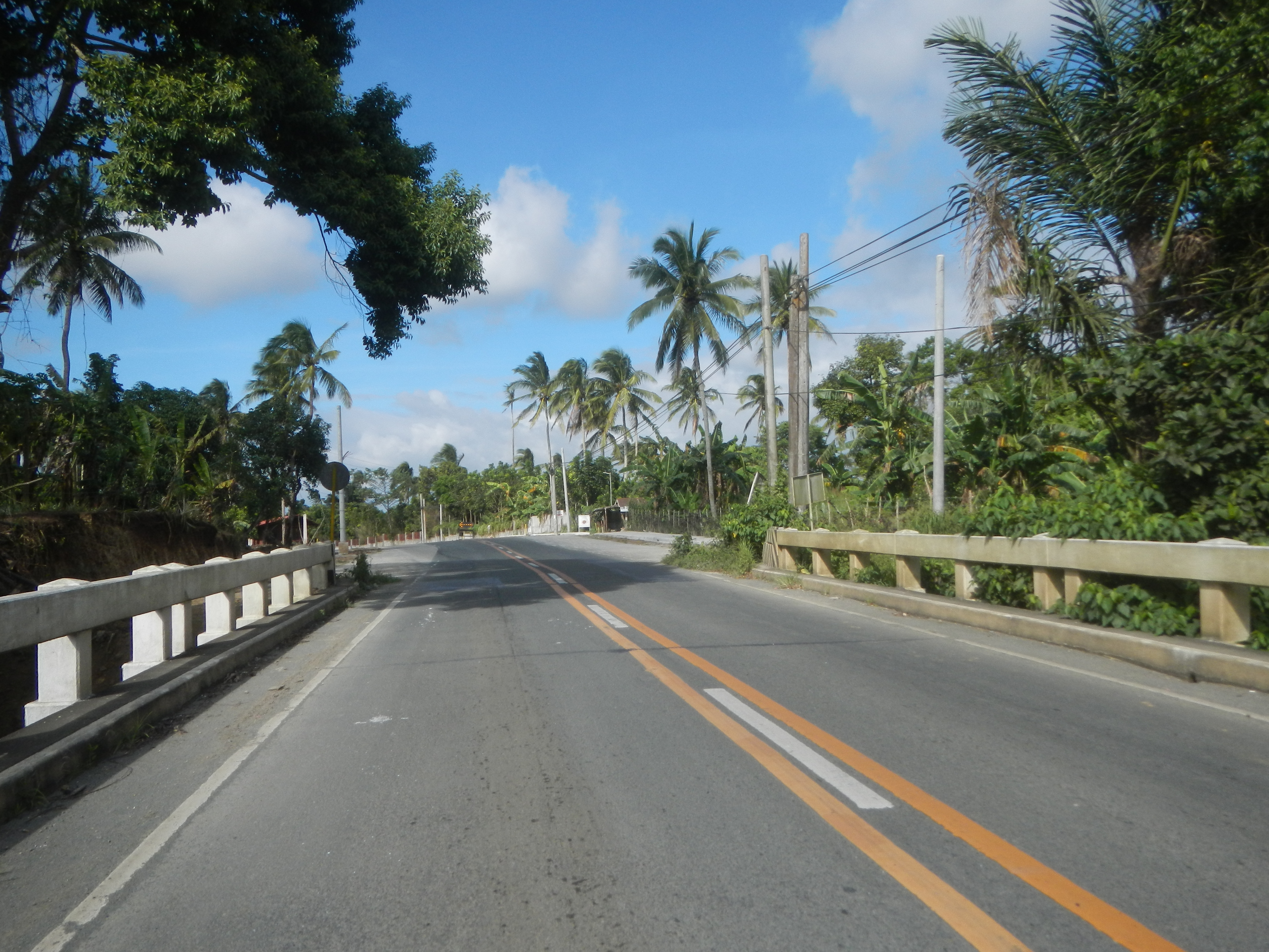 Welcome arch of Indang in Mendez, Cavite Italaro Bridge, Indang-Mendez, Cavite Mendez, Cavite Indang–Mendez Road N402 highway (Philippines) N402 highway (Philippines - Indang to Mendez Road) to N402 highway Naic Barangays Poblacion 1, 2, 3 & 4 14°11'51"N 120°52'36"E Kayquit I, II & III 14°10'31"N 120°53'4"E Buna Lejos 14°10'41"N 120°53'31"E Buna Cerca 14°10'58"N 120°53'17"E Mahabang Kahoy Cerca 14°9'52"N 120°54'2"E Indang along Trece Martires–Indang Road Philippine highway network (Note: Judge Florentino Floro, the owner, to repeat, Donor Florentino Floro of all these photos hereby donate gratuitously, freely and unconditionally all these photos to and for Wikimedia Commons, exclusively, for public use of the public domain, and again without any condition whatsoever).